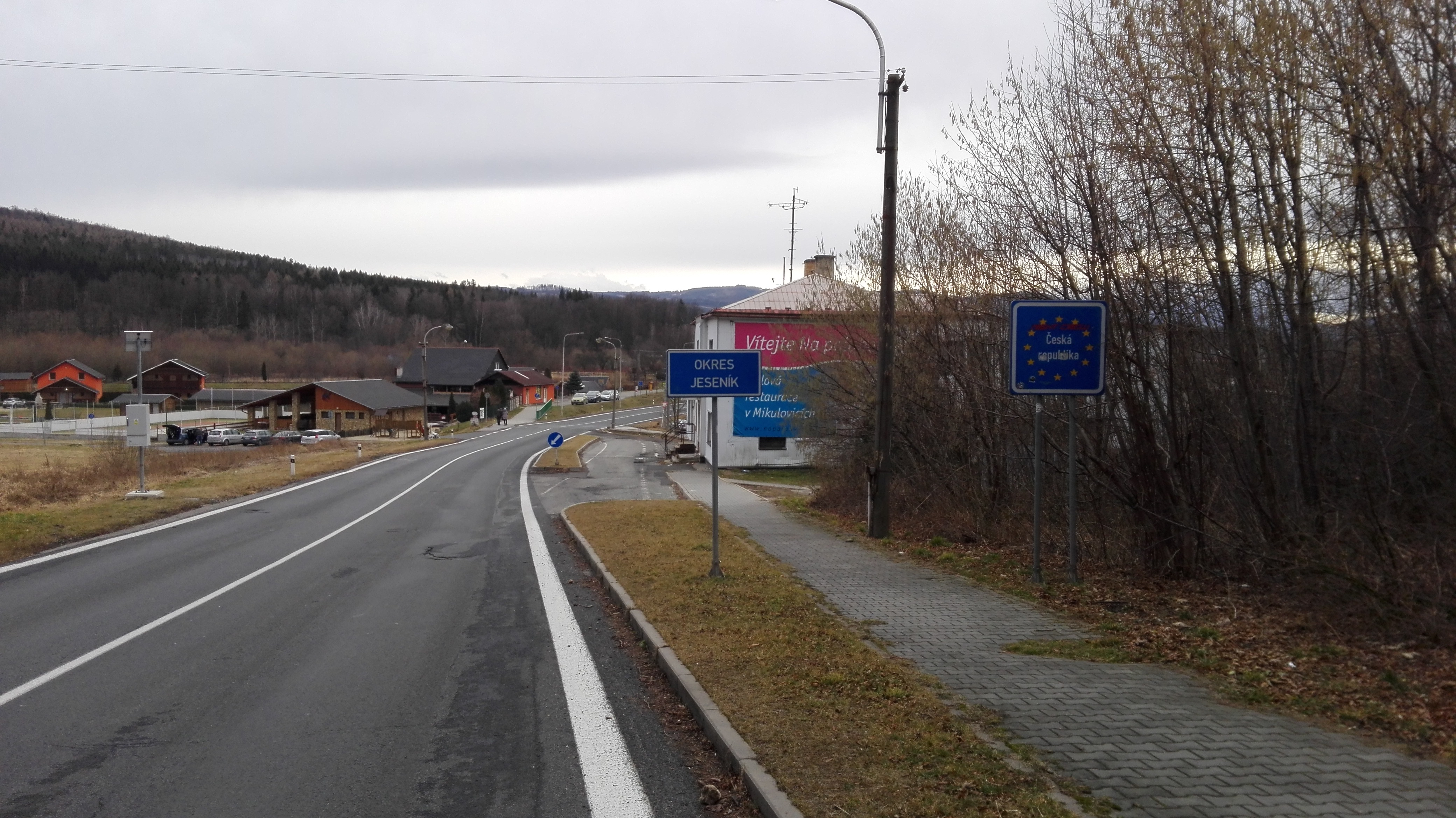 Głuchołazy–Mikulovice border crossing.